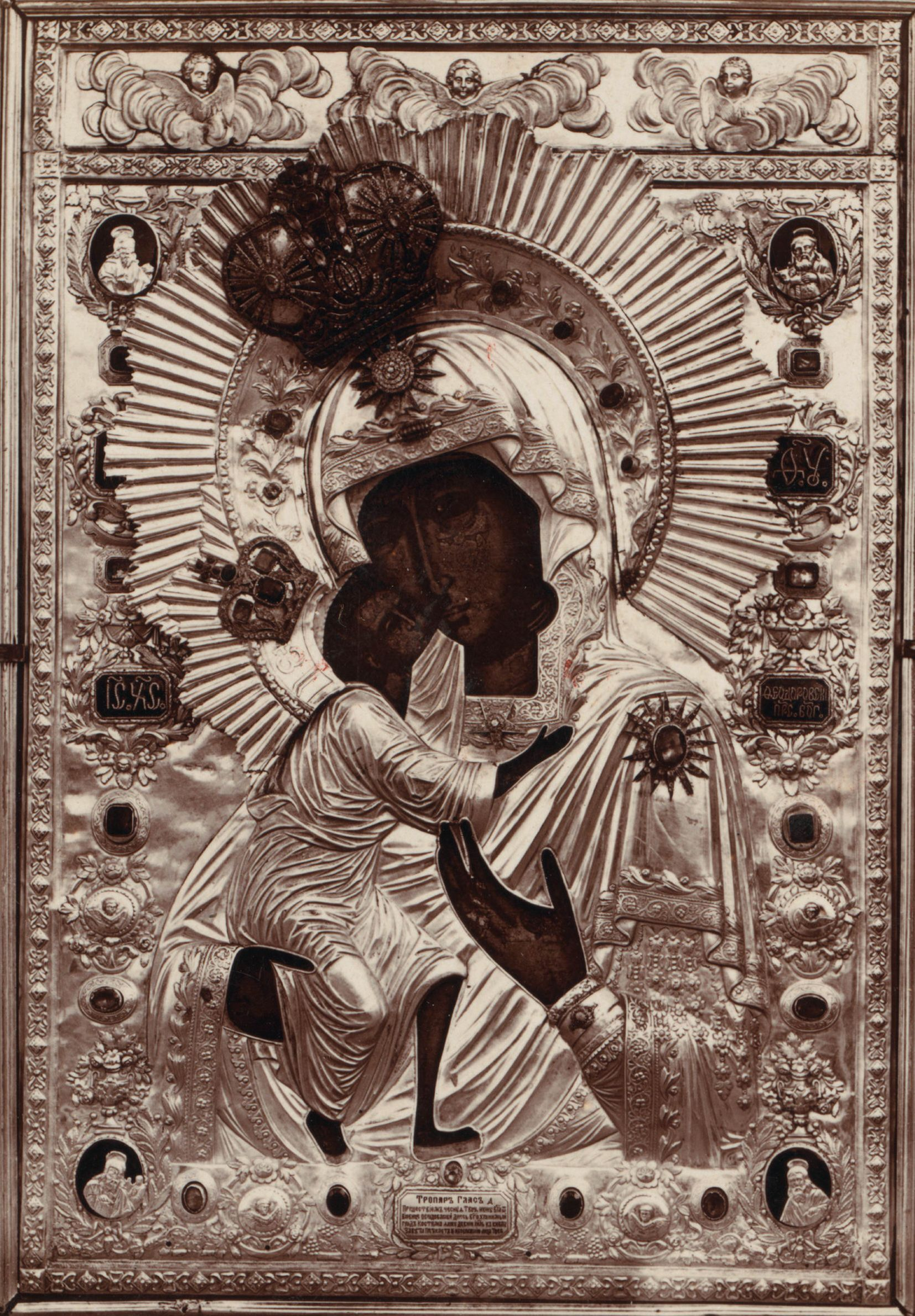 Theotokos of St. Theodore in riza